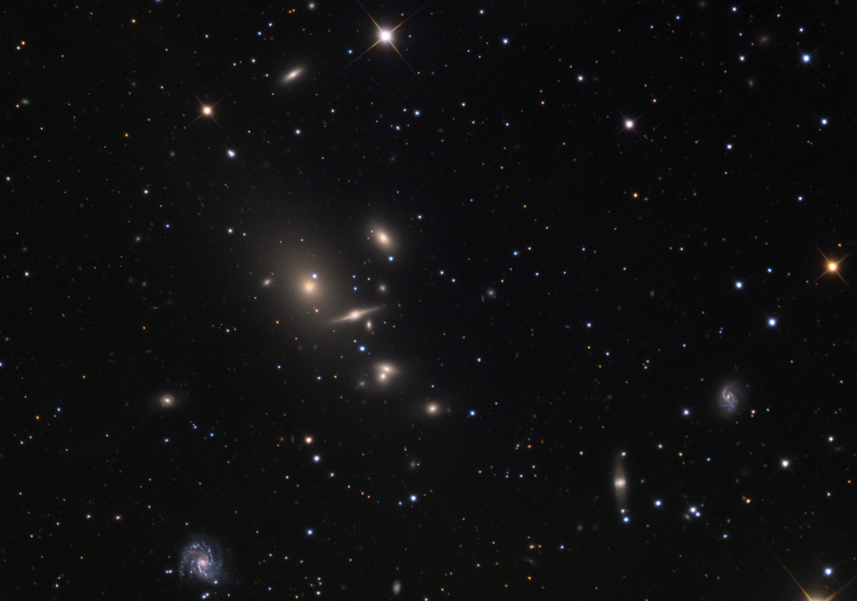 The Fath: NGC 708 et al Picture Details: Optics 32-inch Schulman Telescope (RCOS) Camera SBIG STL11000 CCD Camera Filters Custom Scientific Dates October 10th 2010 Location Mount Lemmon SkyCenter Exposure LRGB = 110:40:30:40 minutes Acquisition TheSky (Software Bisque), Maxim DL/CCD (Cyanogen) Processing CCDStack v2 (CCDWare), Photoshop CS3 (Adobe) Guest Astronomers: Chris Hanrahan and Kip Hoffman Credit Line and Copyright Adam Block/Mount Lemmon SkyCenter/University of Arizona